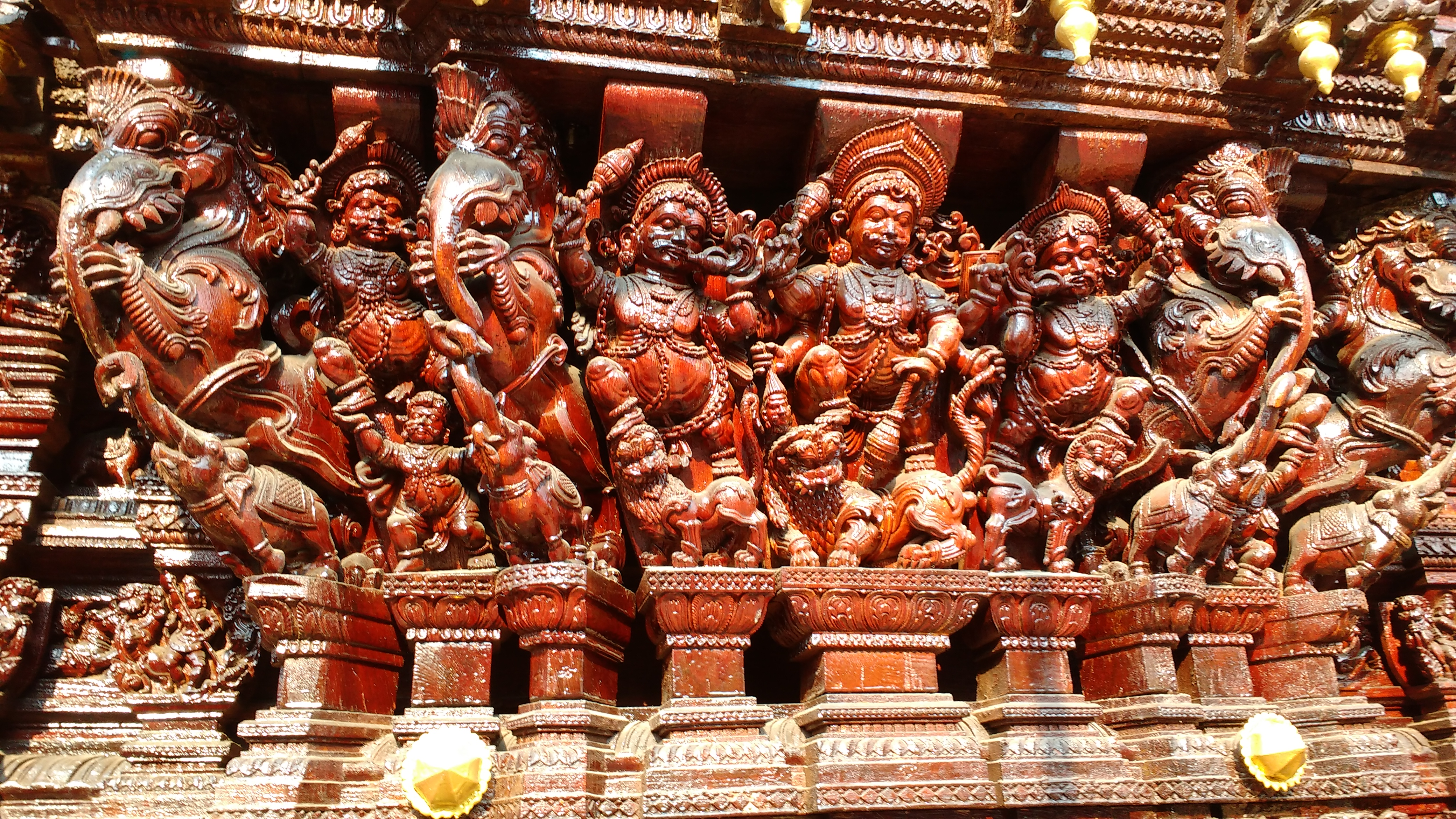 Guards of Lord Shiva